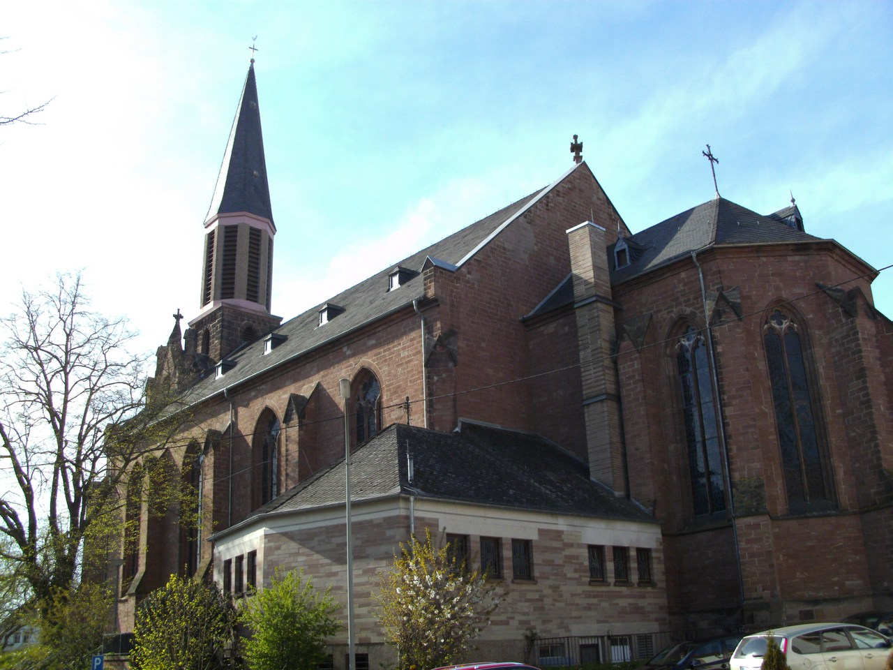 catholic church of lebach